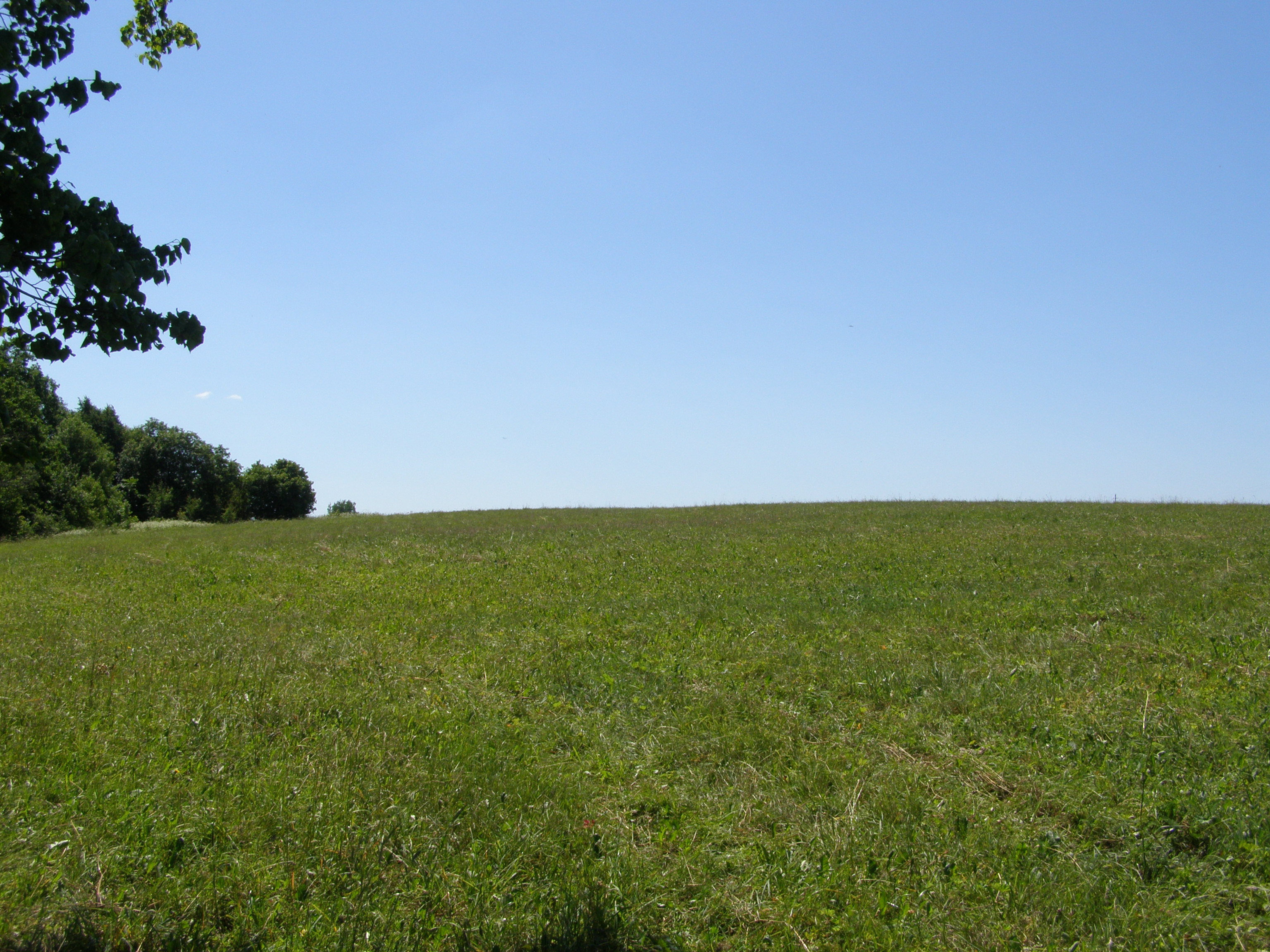 Šakaliai hillfort, Skuodas district, LithuaniaLietuvių: Šakalių piliakalnis, Skuodo rajonas, Lietuva